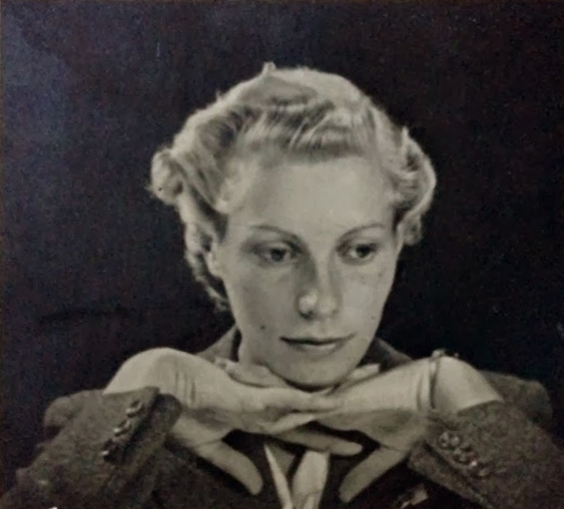 The Italian athlete Gabre Gabric in 1937, one year after the Olympic Games in Berlin.